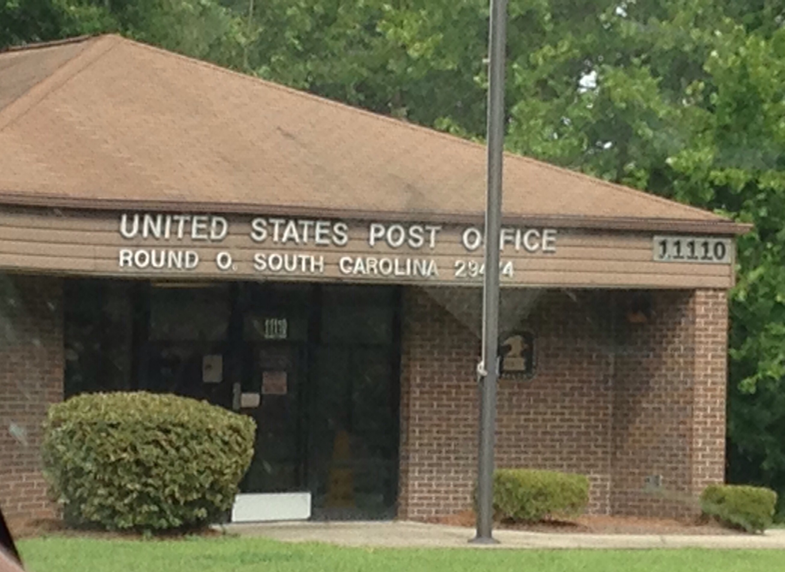 Photo of the Round O Post Office taken from a slowly moving Jeep on July 5, 2015.